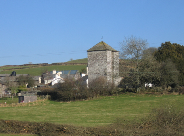 The Church Tower, Llanfihangel Nant Bran, near to Llanfihangel Nant Bran, Powys, Great Britain. This view of Llanfihangel Nant Bran village is taken from a point close to the road bridge over the Nant Bran to the southwest.